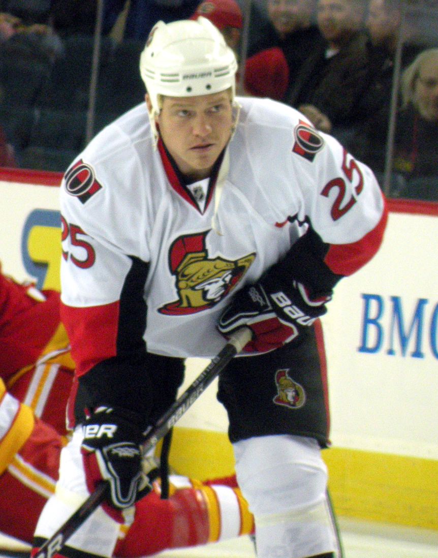 Ottawa Senators forward Chris Neil prior to a National Hockey League game against the Calgary Flames.